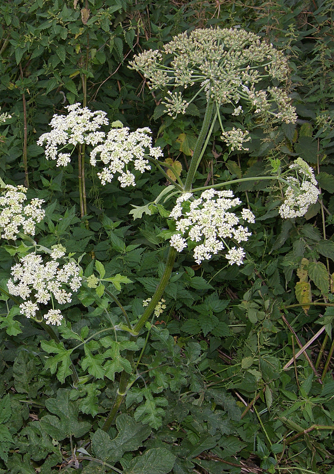 Habitus and inflorescences of Common Hogweed, Heracleum sphondylium (Apiaceae).